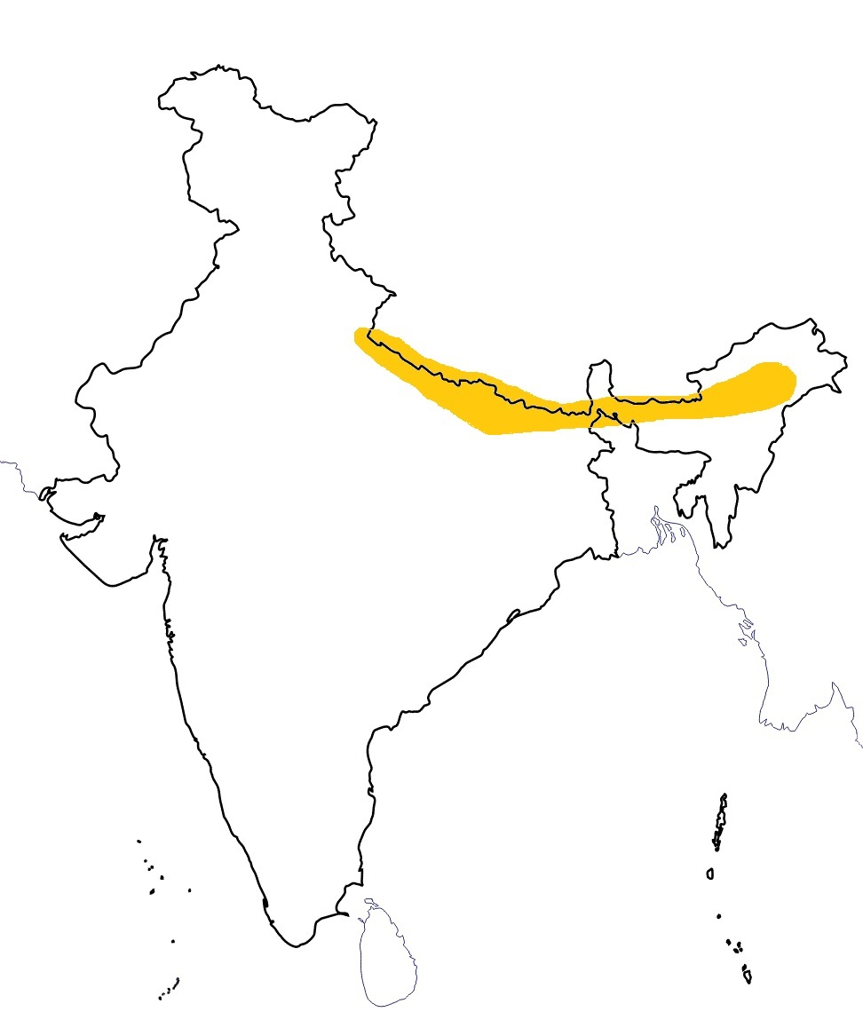 Swamp Francolin range map